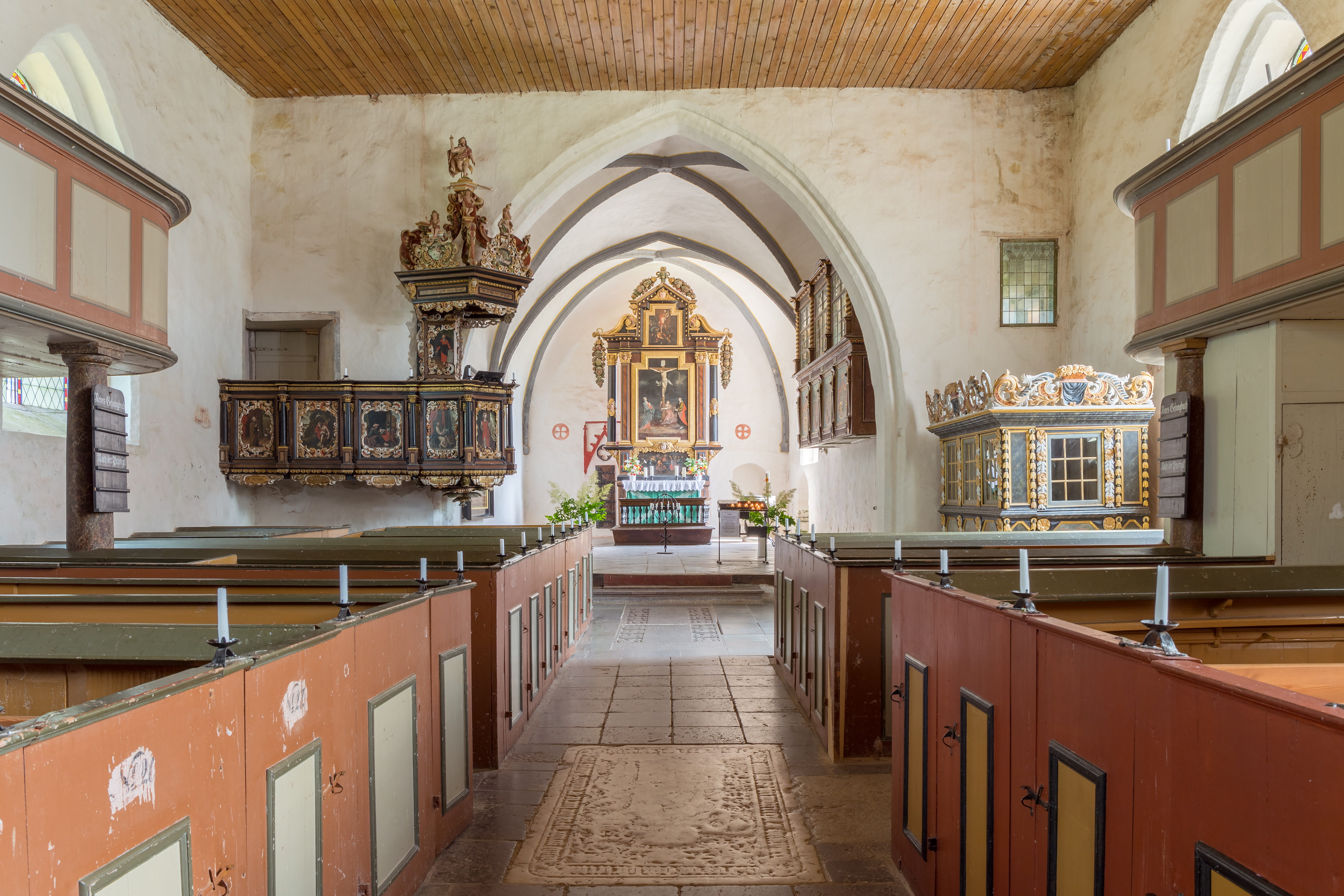 Interior of St. Pauli Church in Bobbin (Rügen). View from the main entrance towards the sanctuary.